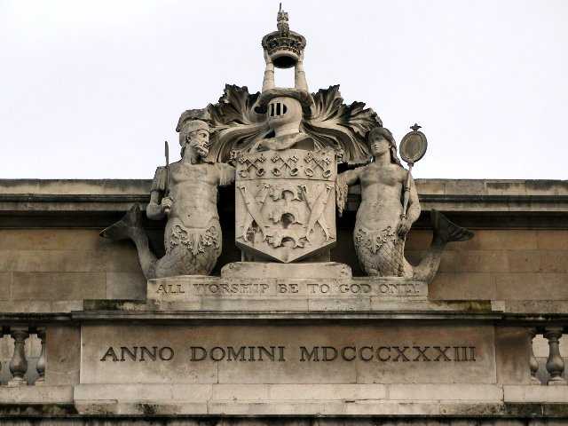 Fishmongers Guild Coat-of-Arms On the current Fishmonger's Hall by London Bridge, built in 1833-34 to a design by Henry Roberts . 'Doggett's Coat and Badge' race is rowed from here to Chelsea, annually on August 1st. (see Doggett's_Coat_and_Badge ).